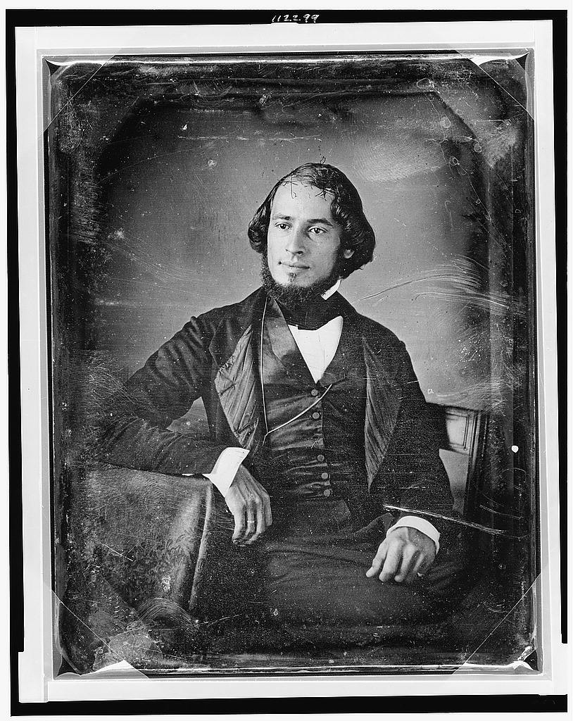 Attributed to S.N. Carvalho. [Solomon Nunes Carvalho, half-length portrait, facing slightly left, seated with arm resting on table with tablecloth] half plate daguerreotype, ca. 1850.